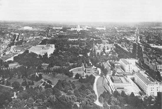 Looking east at the National Mall in Washington, D.C., in the United States in the summer of 1908. The Mall still shows the winding pathways and random plantings of its Victorian-era landscape design, created in 1851 by Andrew Jackson Downing. The recently-completed wings of the United States Department of Agriculture Building can be seen on the right. (The central structure, joining the two wings, would not be built until 1936.) The Smithsonian Museum of Natural History, nearing completion, is visible at middle-left. Virginia Avenue SW extends into the background on the right. The slum known as Murder Bay is visible on the far left behind the Museum of Natural History.